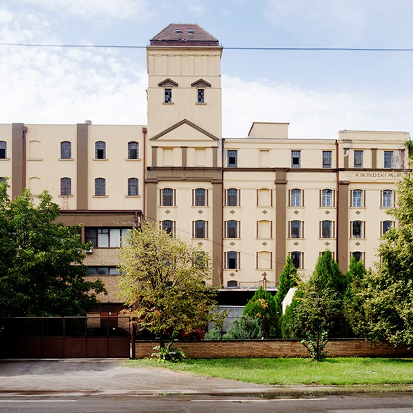 Mill in Kikinda, the look of a factory built in 1869.